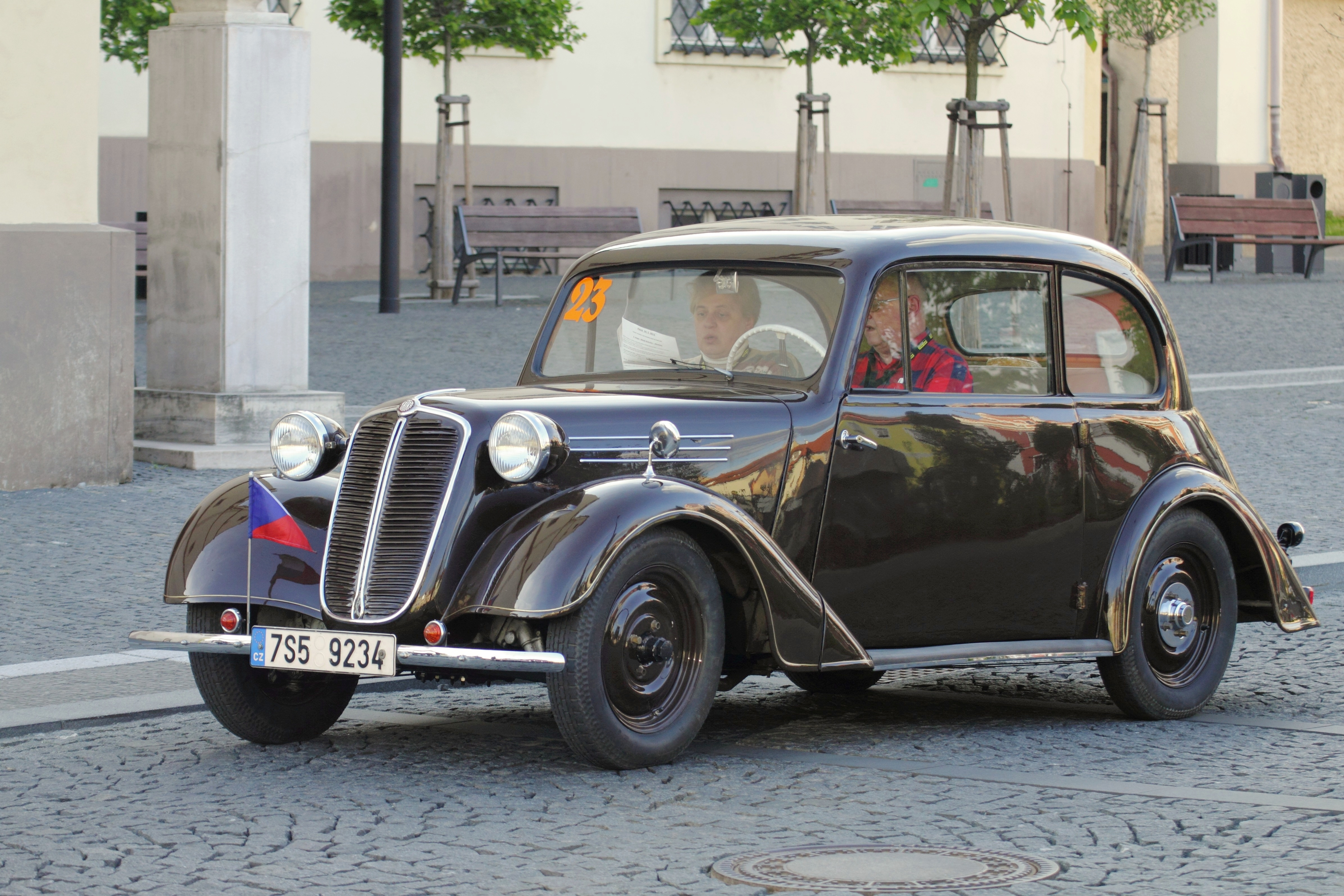 Tatra 57 B (1939), 2013 Oldtimer Bohemia Rally, Mladá Boleslav